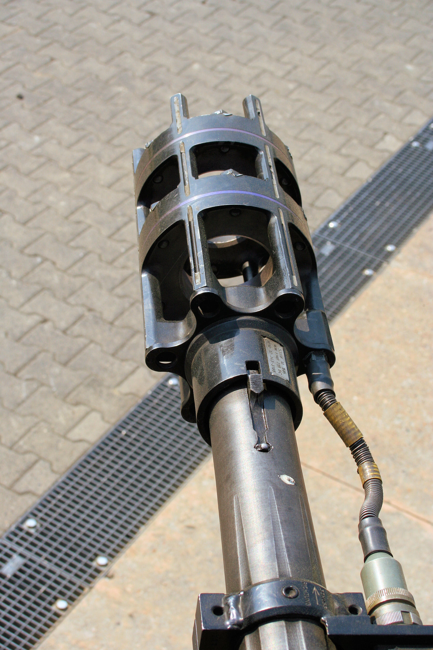 Gepard 1A2 V0 Messanlage, Gepard 1A2 measurement of muzzle velocity